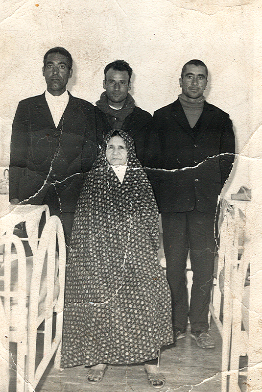 Hajjiabad, Zeberkhan, Nishapur - old pictures of people